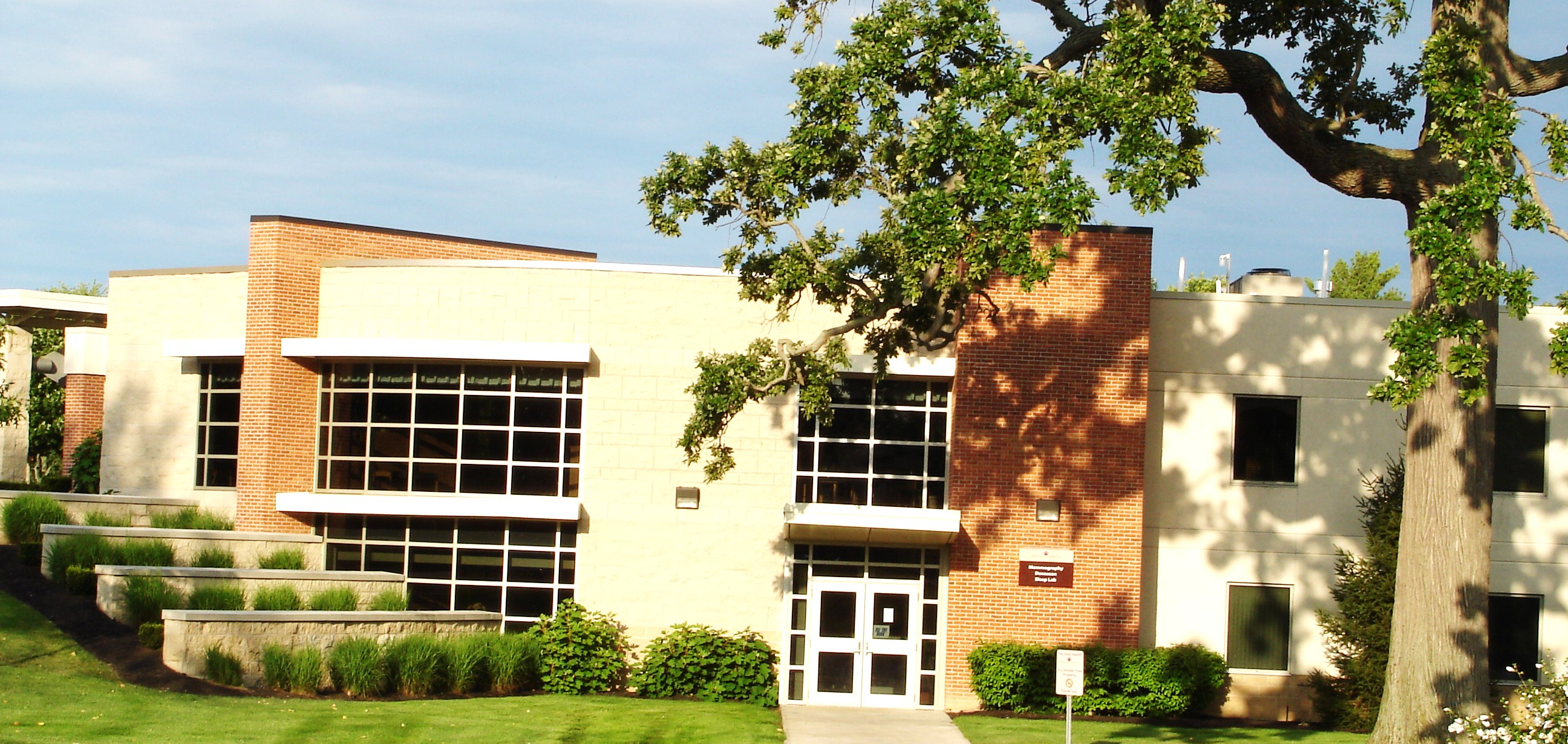 Marysville Memorial Hospital, Marysville, Ohio, United States